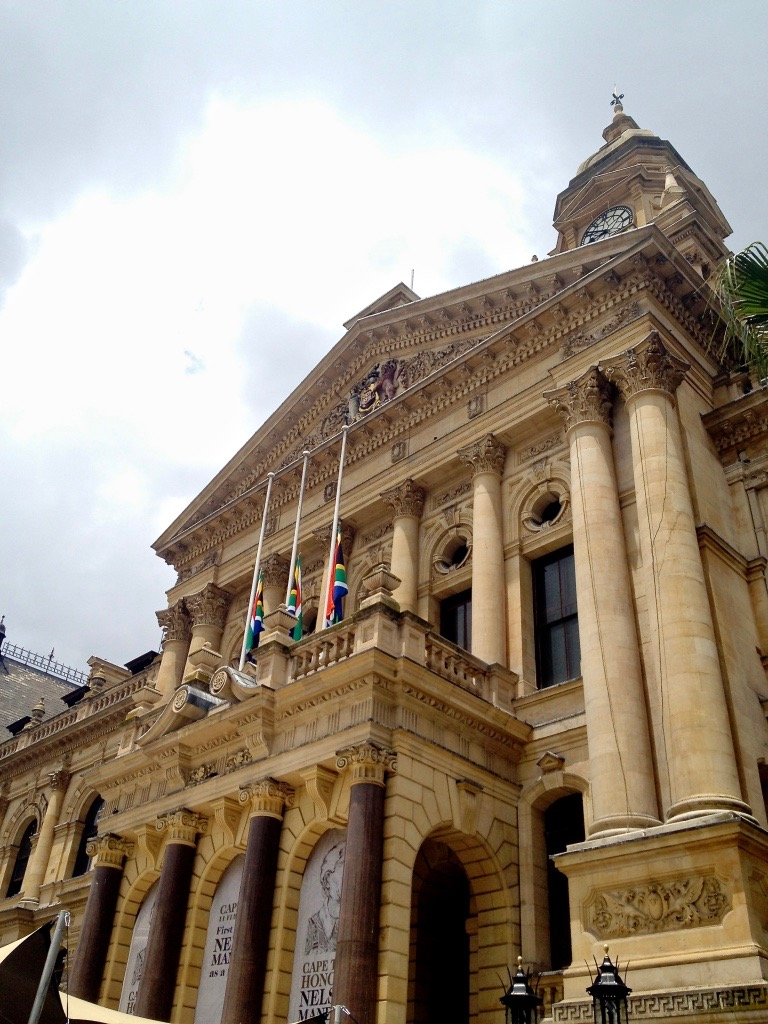 Taken on the day that commemoration was held in honour of the passing of Nelson Mandela